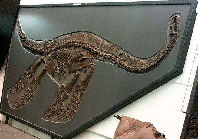 Plesiosaurus guilielmiiperatoris (suggested by some to be its own genus Seeleysaurus)[1] im ZfB